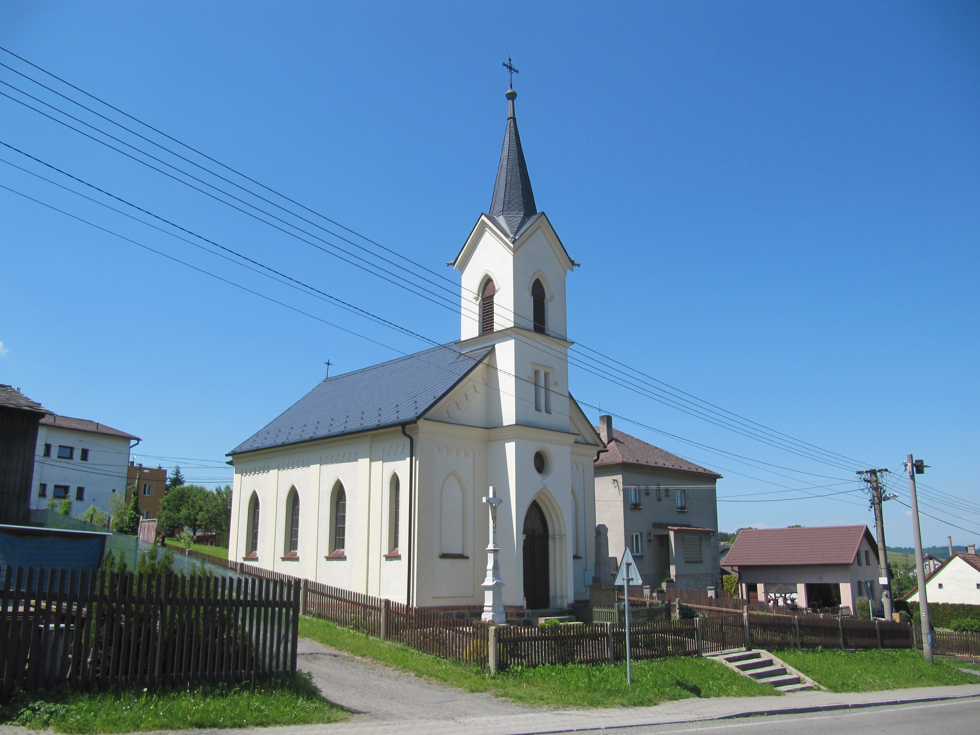 Hradec nad Moravicí, Opava District, Czech Republic, part Bohučovice.